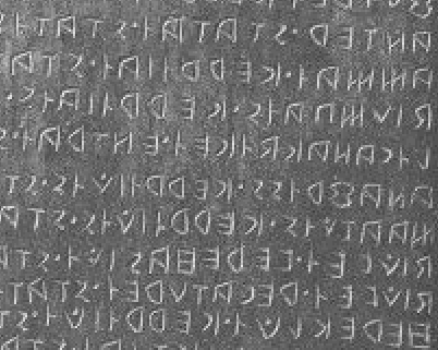 Fragment of a Tablet from Agnone (250 b.C.) The original is in the British Museum of London.